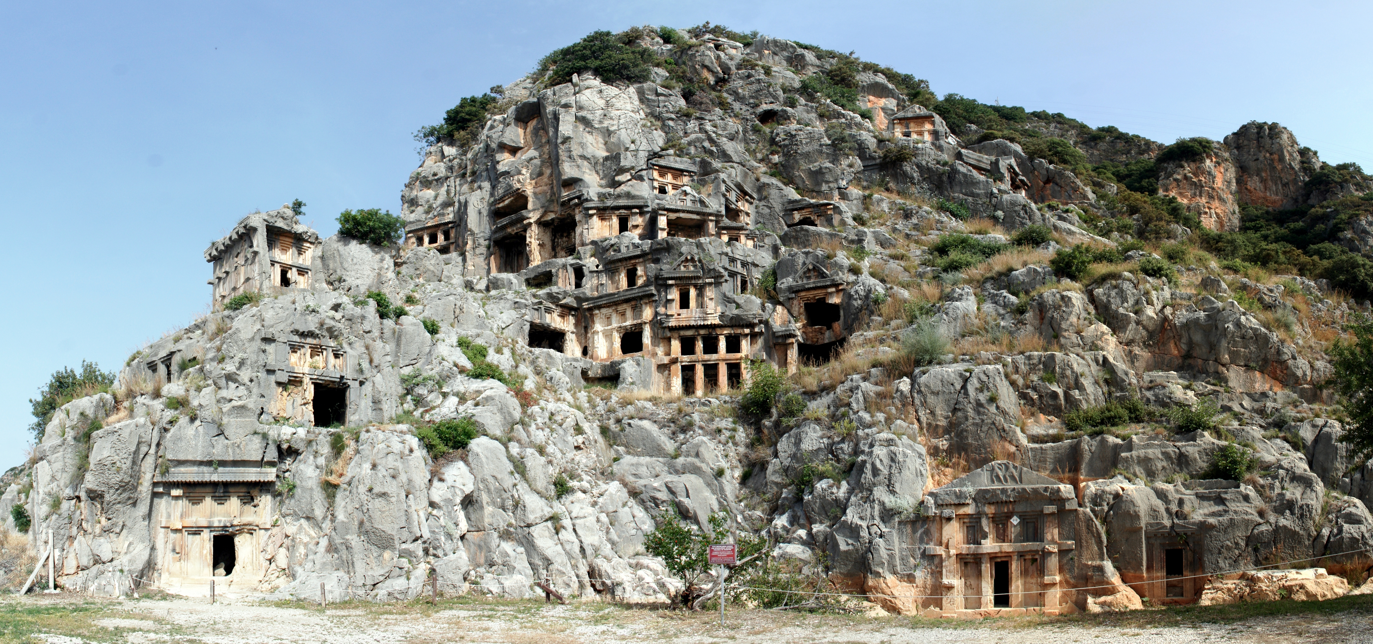 Demre - Ruins of Myra - Lycian rock cut tombs and temple fronts